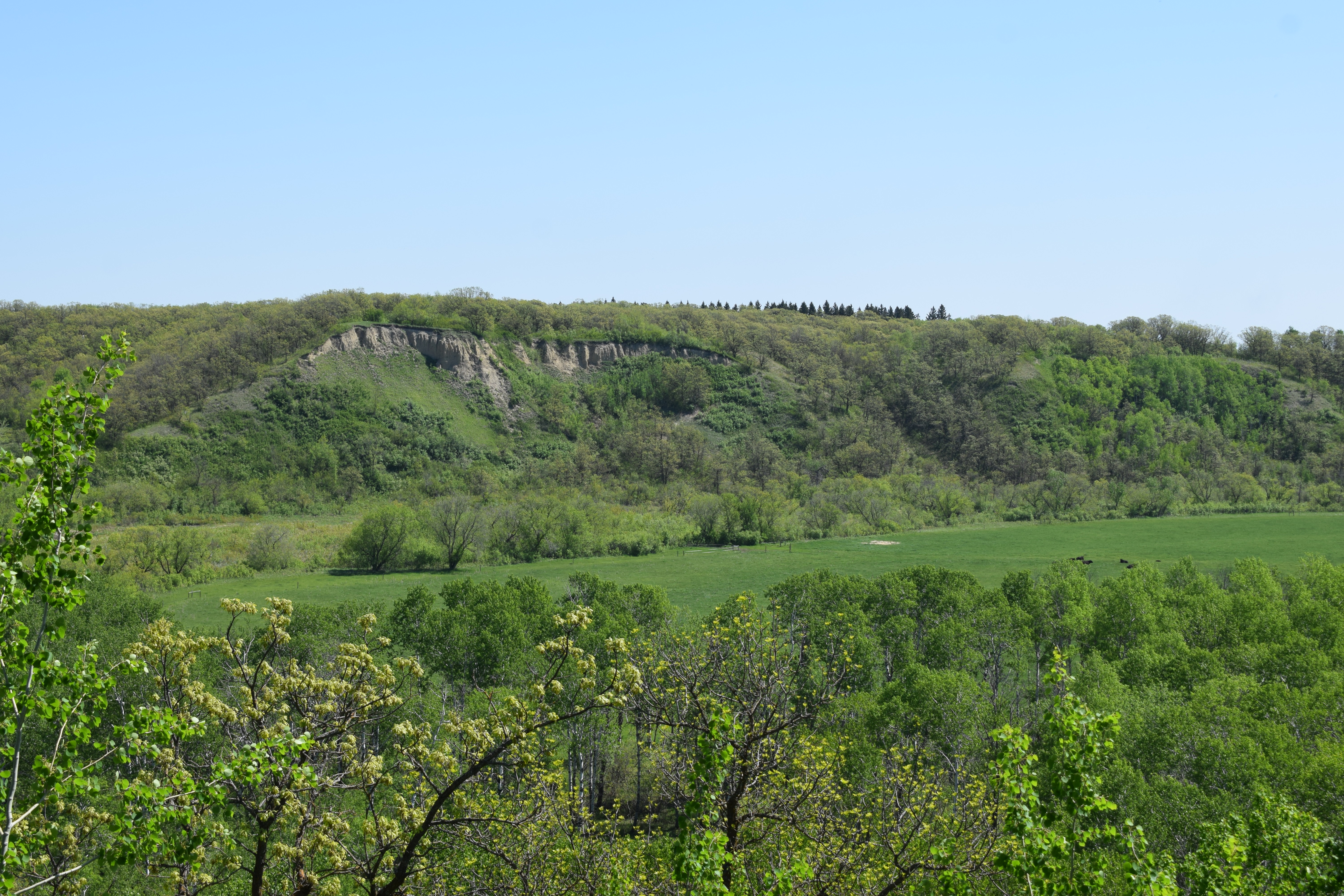 Clay Banks Bison Jump which lies north of Cartwright, Manitoba. These Bison Jumps were actively used between 250 AD and 800 AD based on flint projectile points that were found in numerous numbers around the site.